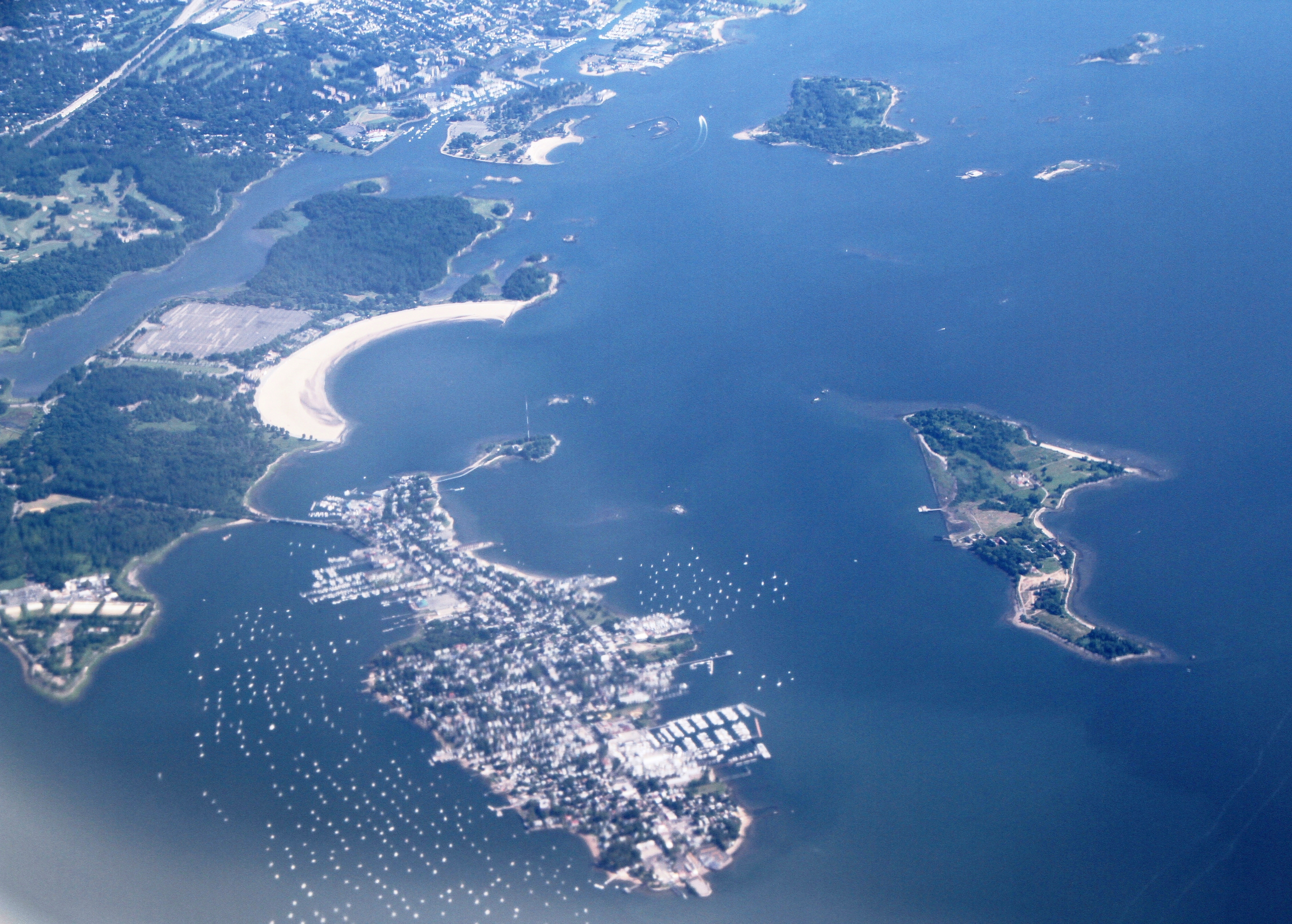 Aerial view of City island and Hart Island, off the coast of Peltam (Bronx), New York. This is northeast of Manhattan.